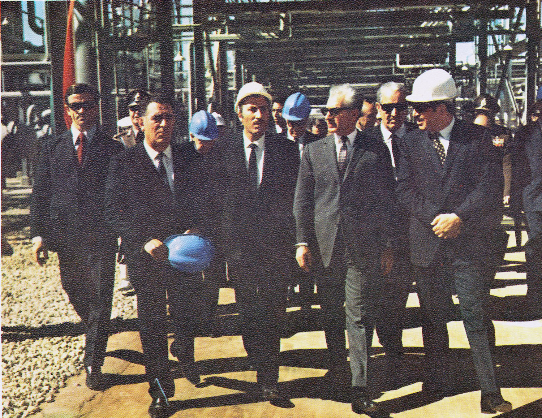 Shahanshah Aryamehr visits different parts of the Abadan Petrpchemical Complex after opening.